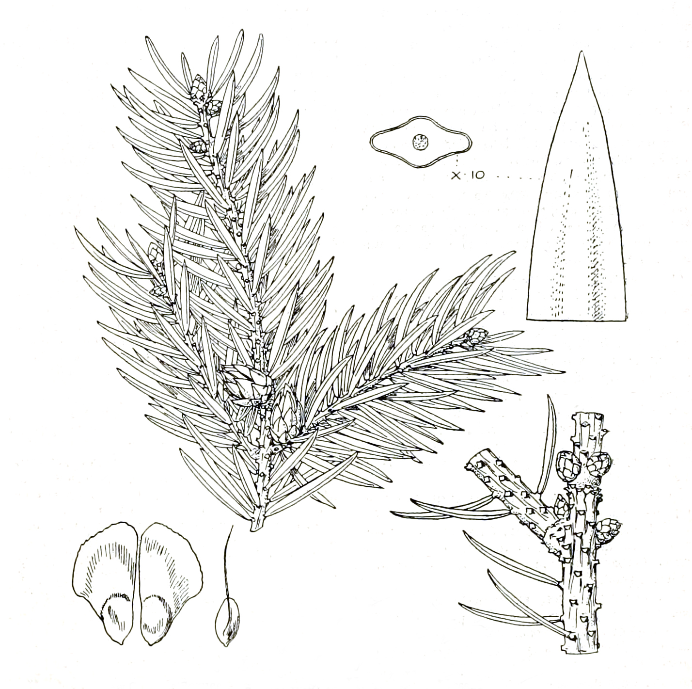 Picea neoveitchii foliage